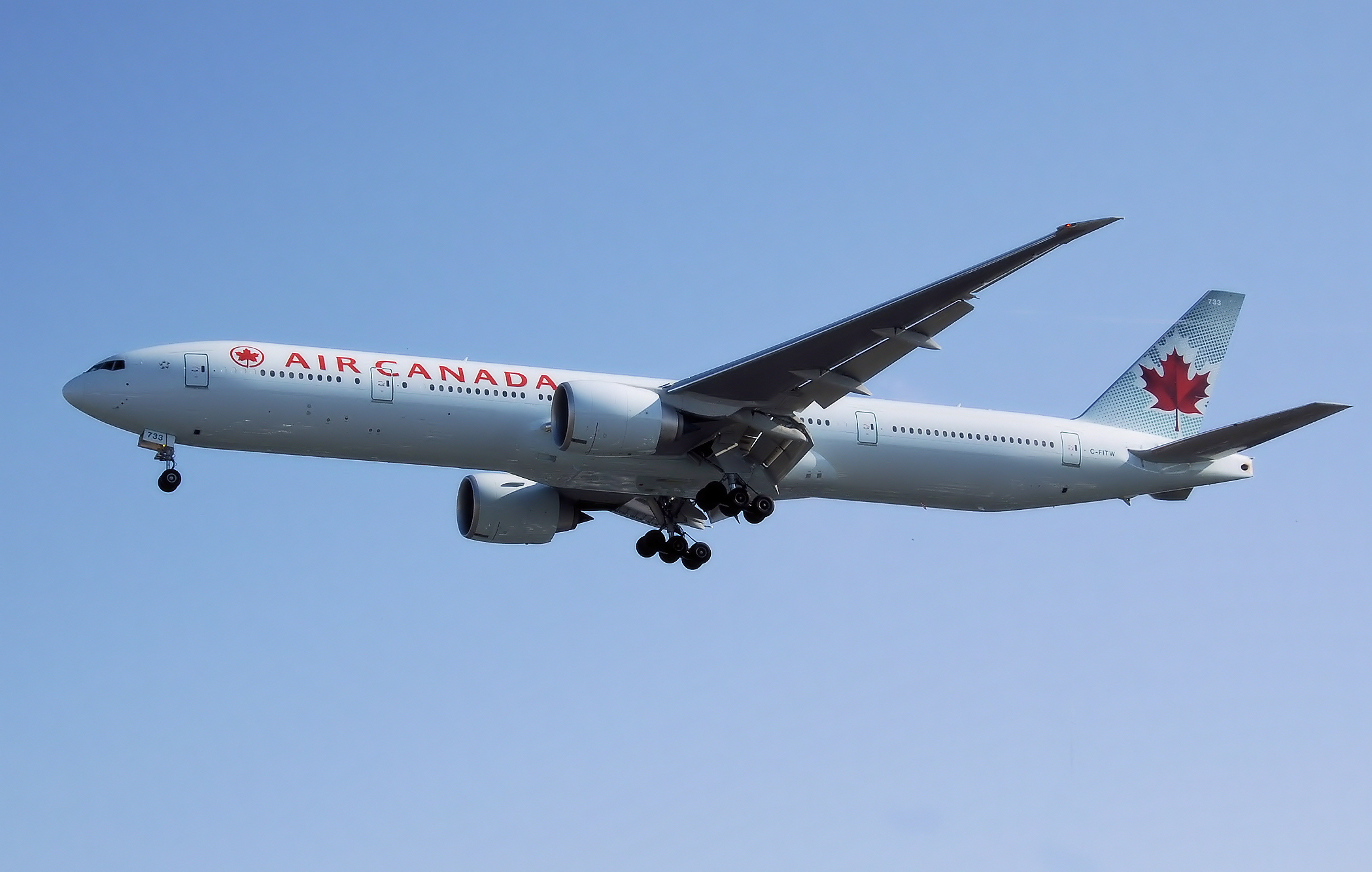 Air Canada Boeing 777-300ER (C-FITW) lands at London Heathrow Airport, England.